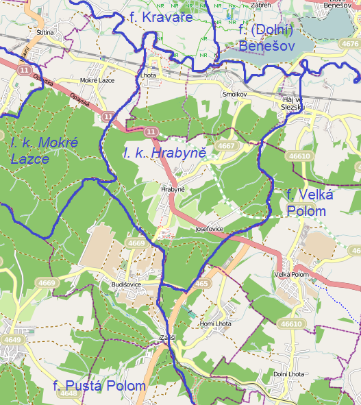 Hrabyně parish / local curacy (1784). This map of Hrabyně parish was created from OpenStreetMap project data, collected by the community. This map may be incomplete, and may contain errors. Don't rely solely on it for navigation.